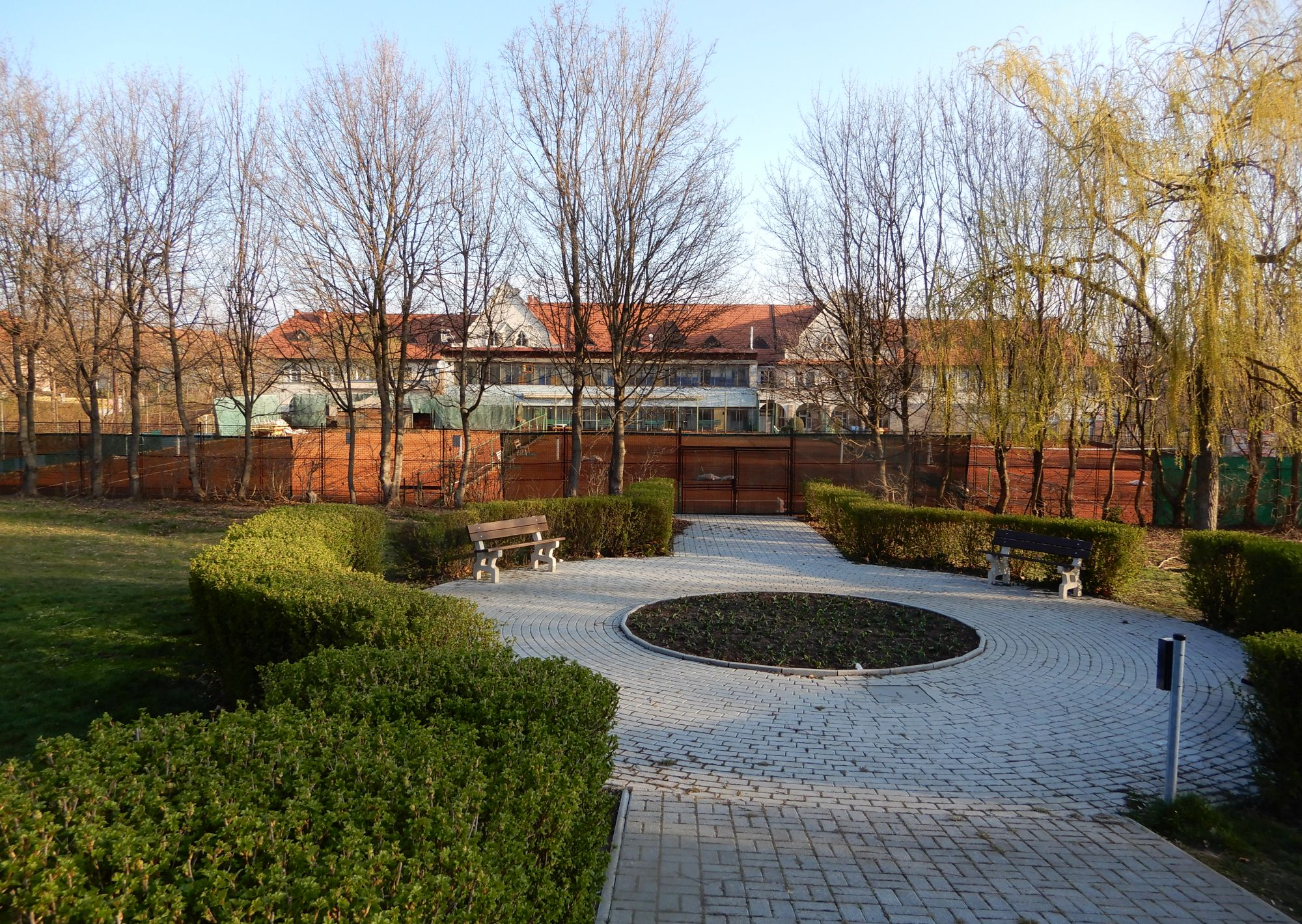 Park in Ořechovka, Prague - Střešovice, tennis courts